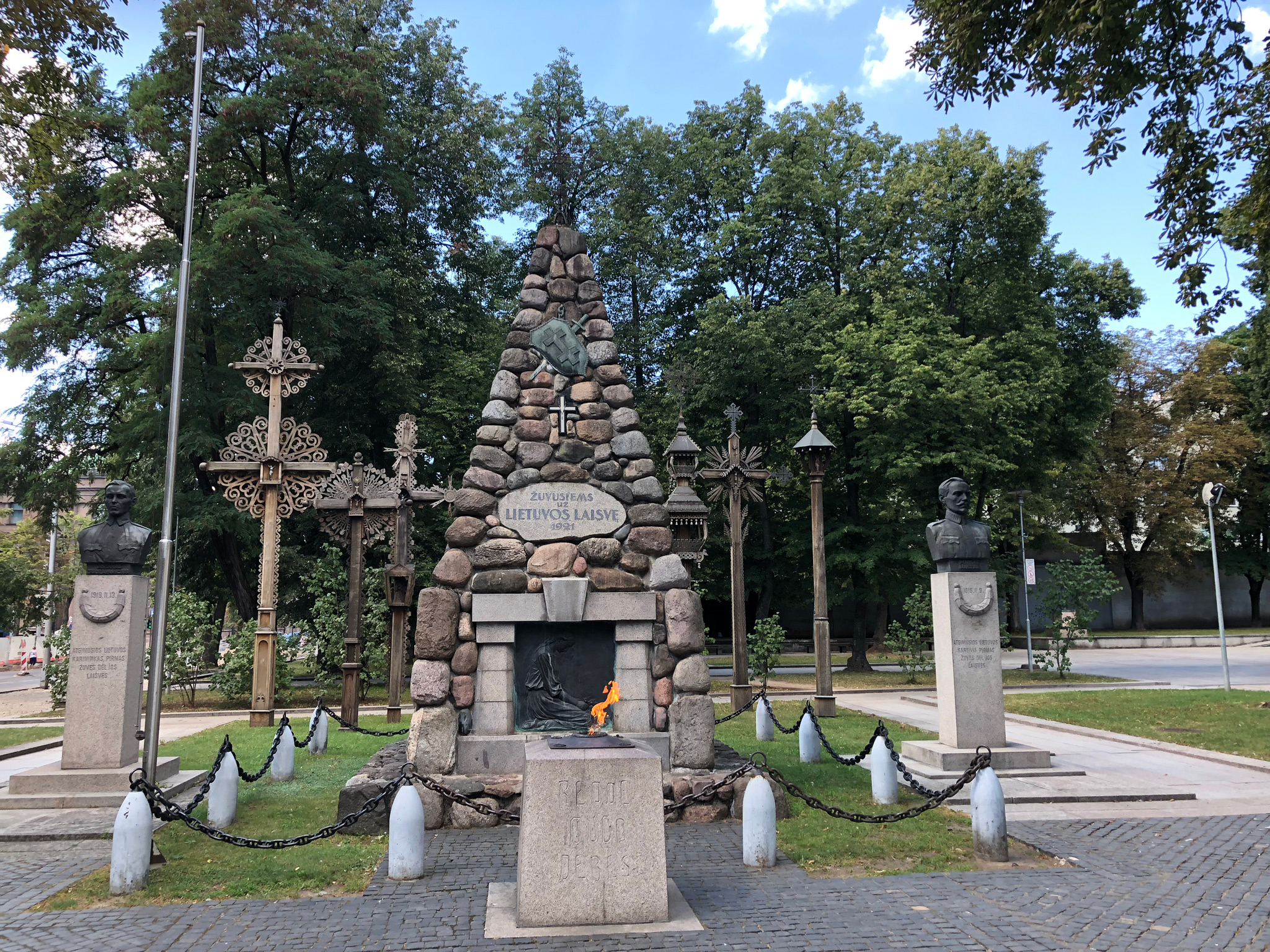 Vienybės aikštė (Unity Square) monument for the Lithuanian Wars of Independence with eternal flame in the centre.